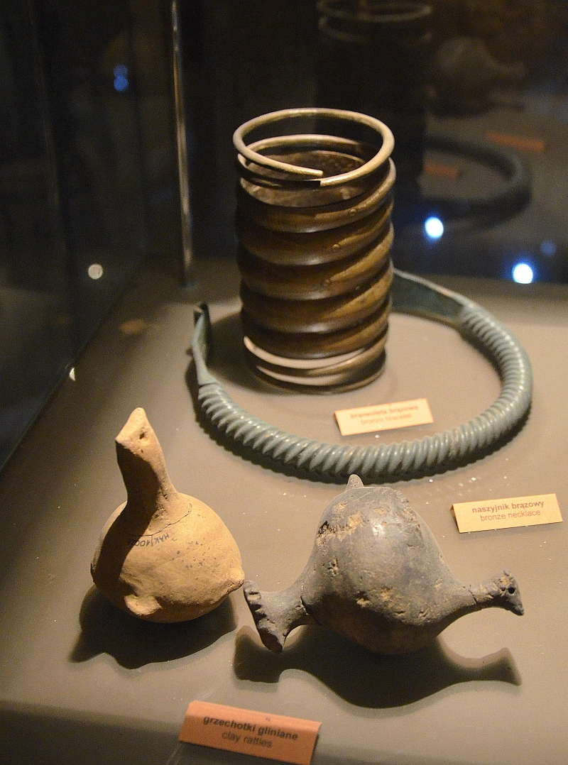 grave goods 700 BC